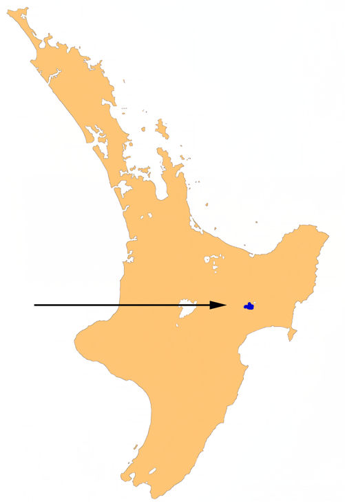 Location map of Lake Waikaremoana, New Zealand